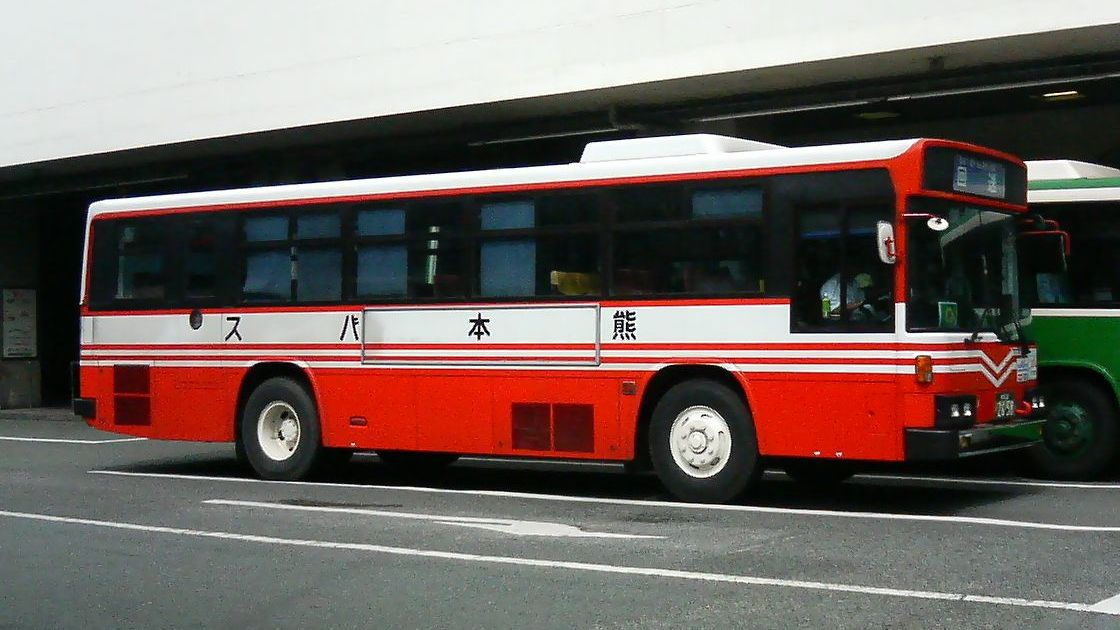 Company:Kumamoto Bus Use:transit bus Car license:熊本22 か 2658 Chassis manufacturer:Mitsubishi Motors Coachbuilder:Nishinippon Shatai Kogyo Location:in Kumamoto Bus Terminal, Kumamoto City, Kumamoto, Japan.